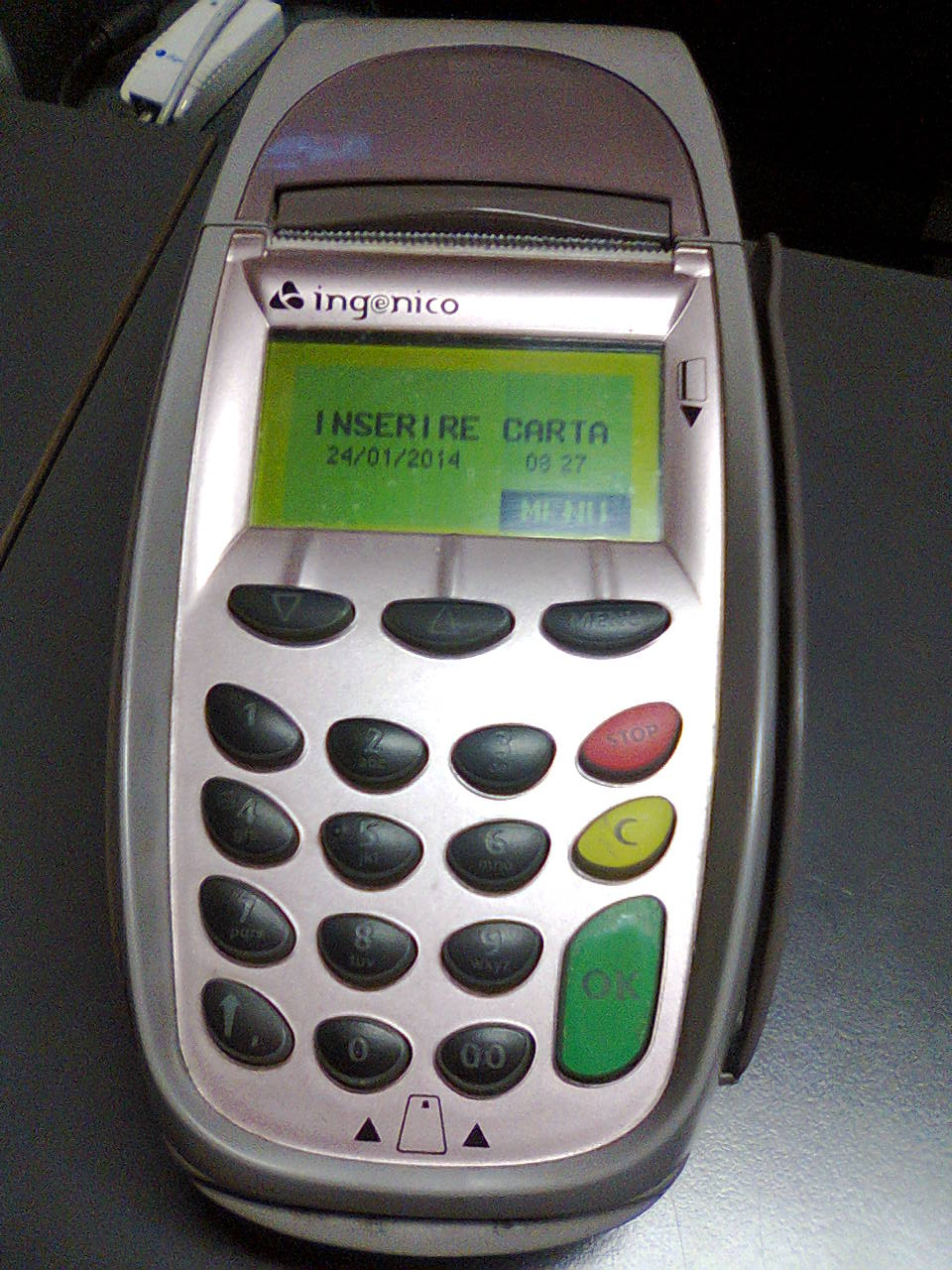 POS device (Italy)